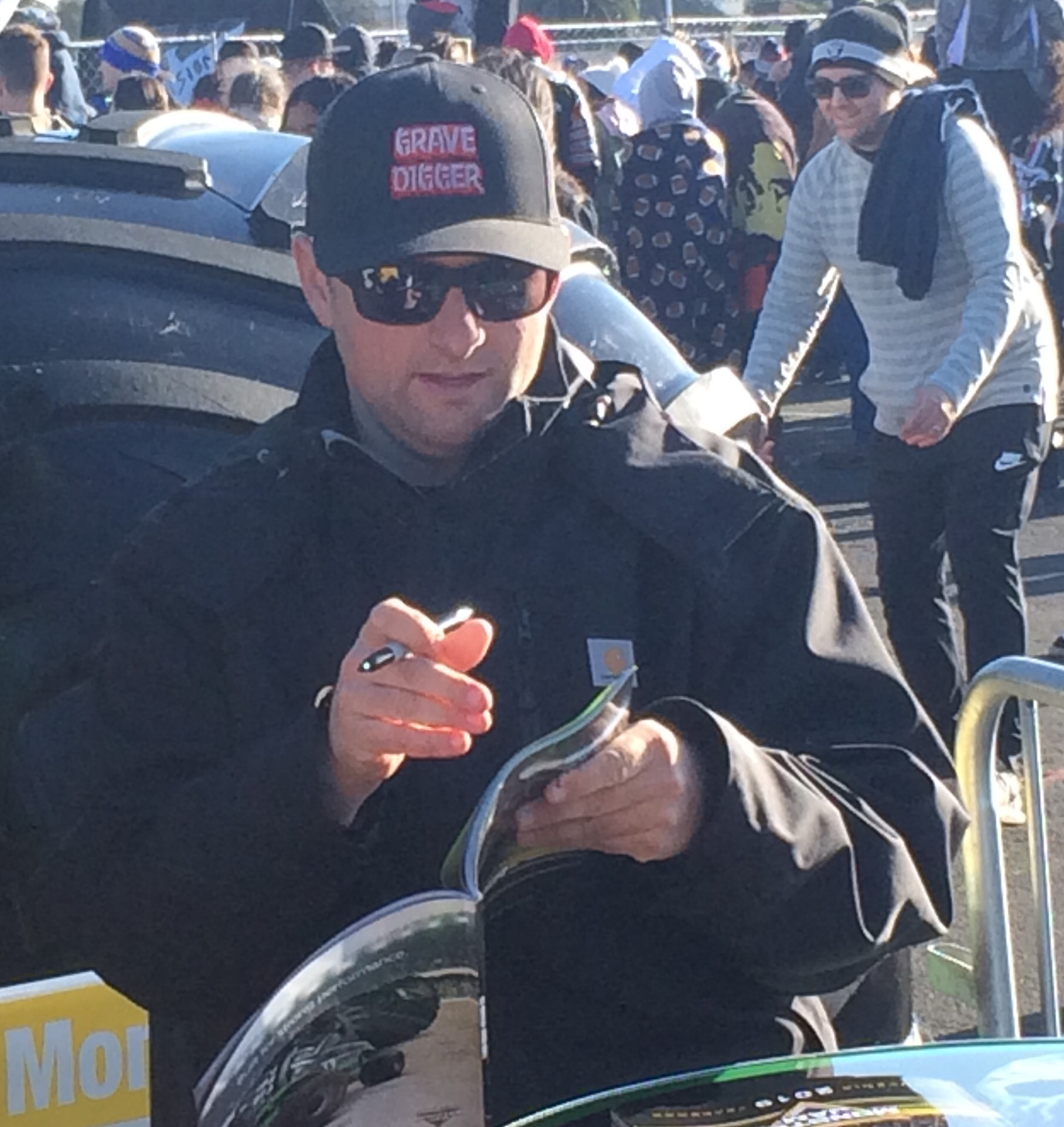 Adam Anderson signs autographs prior to the start of a Monster Jam event in Oakland, California in 2019.